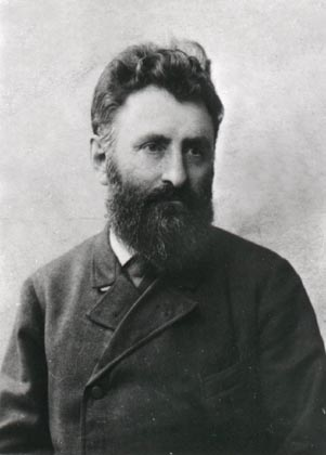 Iakob Gogebashvili (1840-1912), Georgian educator and writer